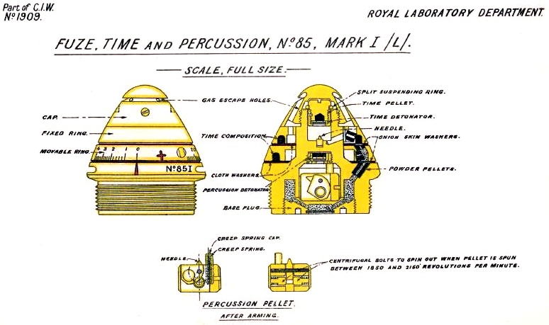 Diagram of British No. 85 Time & Percussion fuze, World War I.